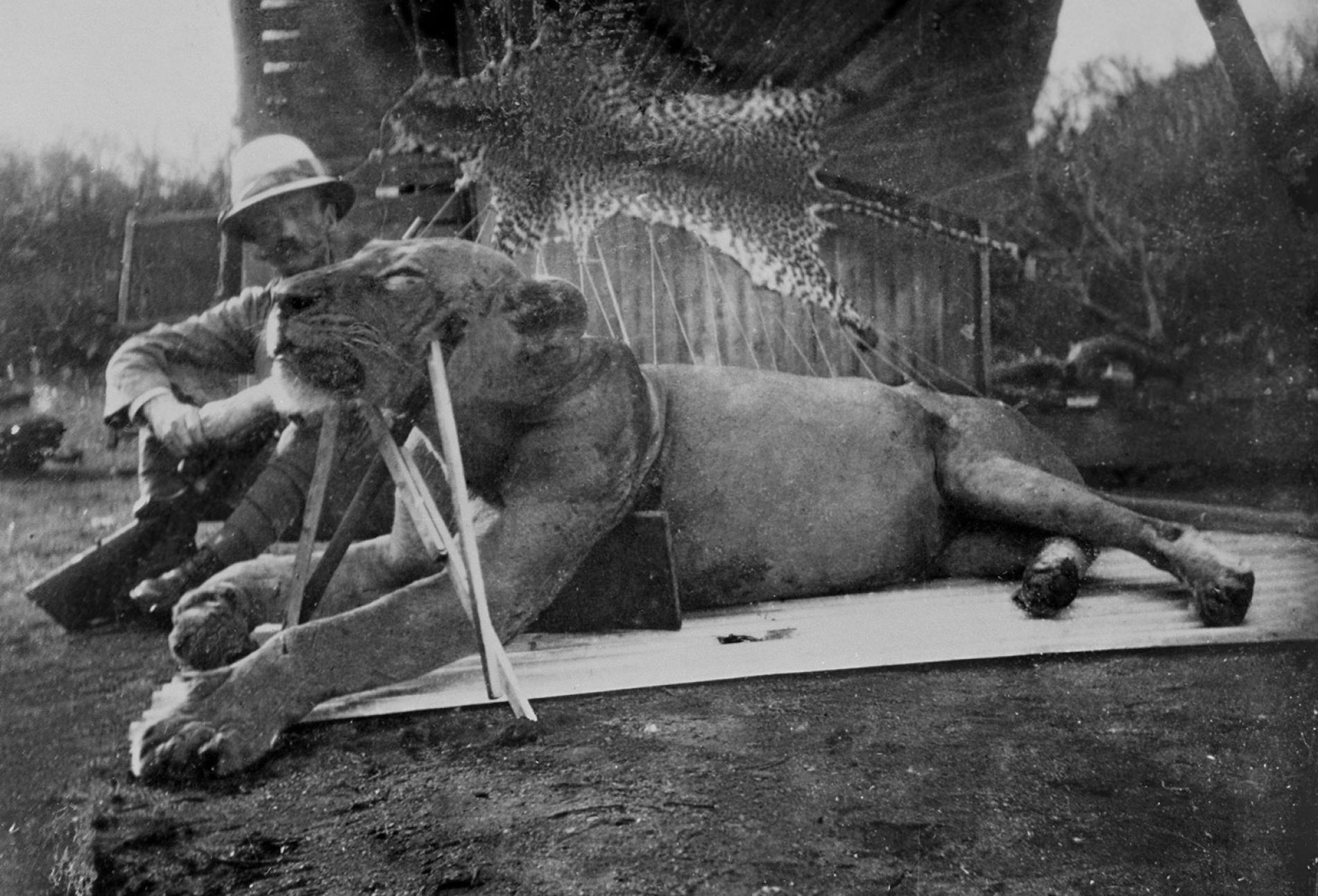 The first of the two Tsavo man-eating lions (FMNH 23970) shot by Lt. Col. Patterson.